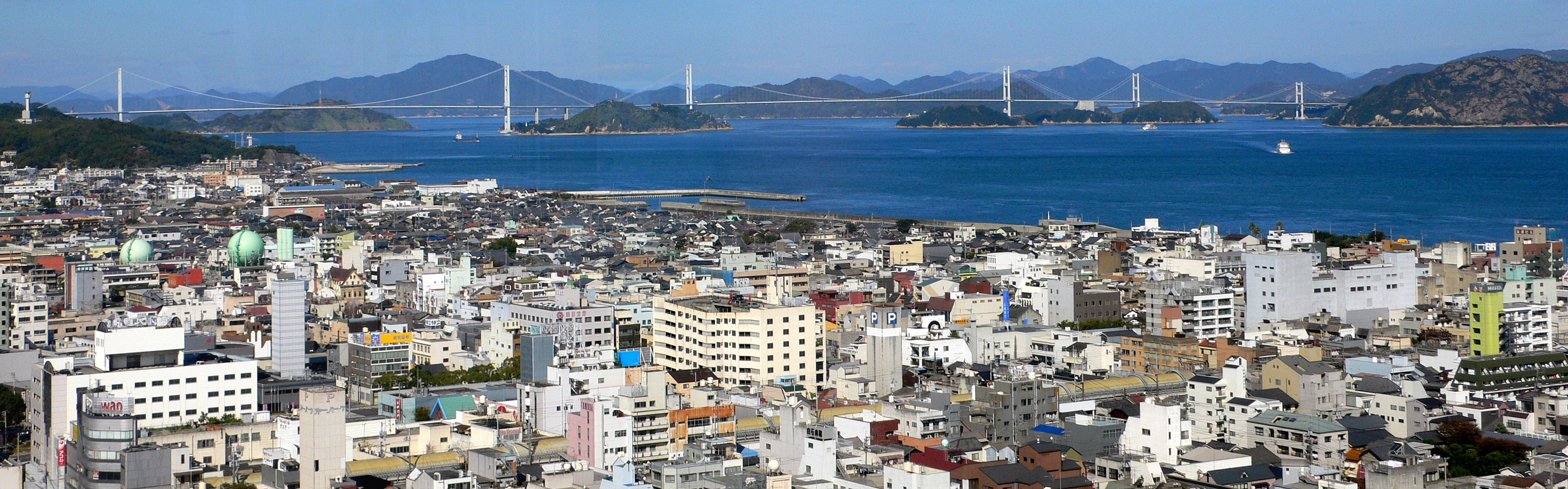 Imabari city centre in Ehime pref., Japan.